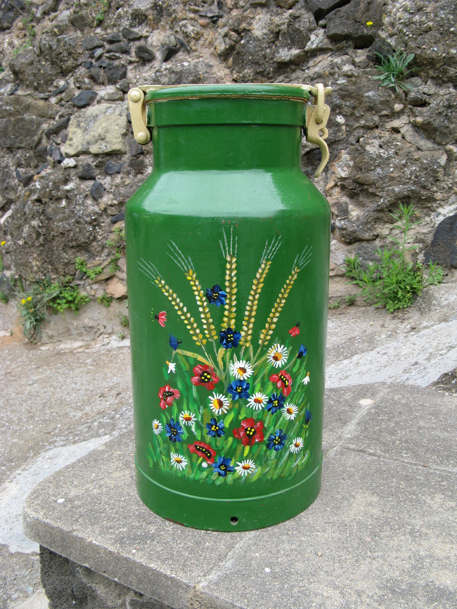 Milk can with peasant art